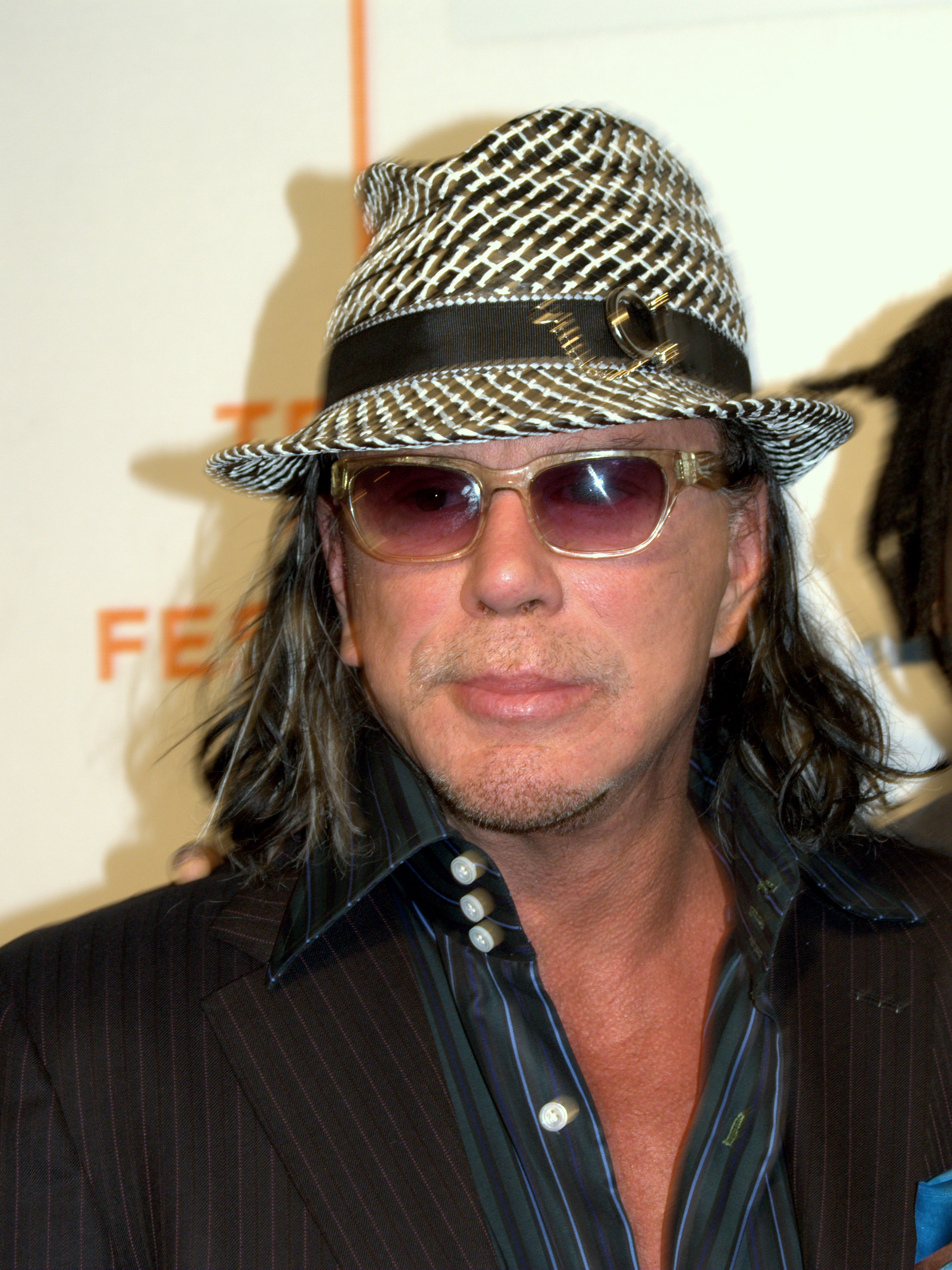 Mickey Rourke at the 2009 Tribeca Film Festival for the premiere of City Island. Photographers blog post about the event for this photo.